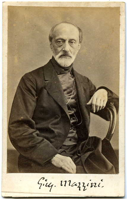 Black and white photographic portrait of Giuseppe Mazzini by Domenico Lama (1823-1890) with G.M.'s signature at the bottom.